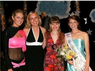 Montana Outstanding Teens 2005-2008